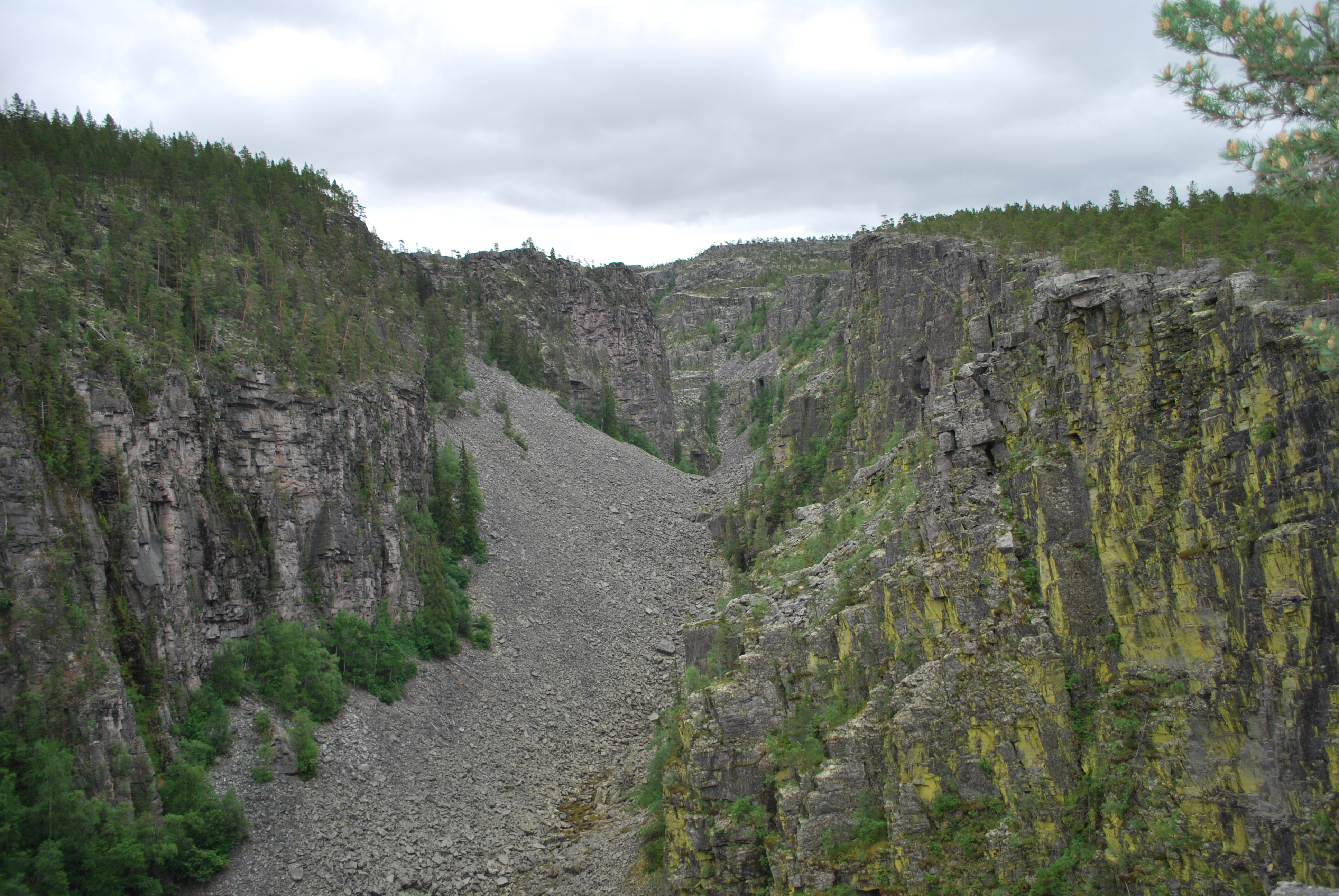 Jutulhogget in Alvdal, Hedmark, Norway.